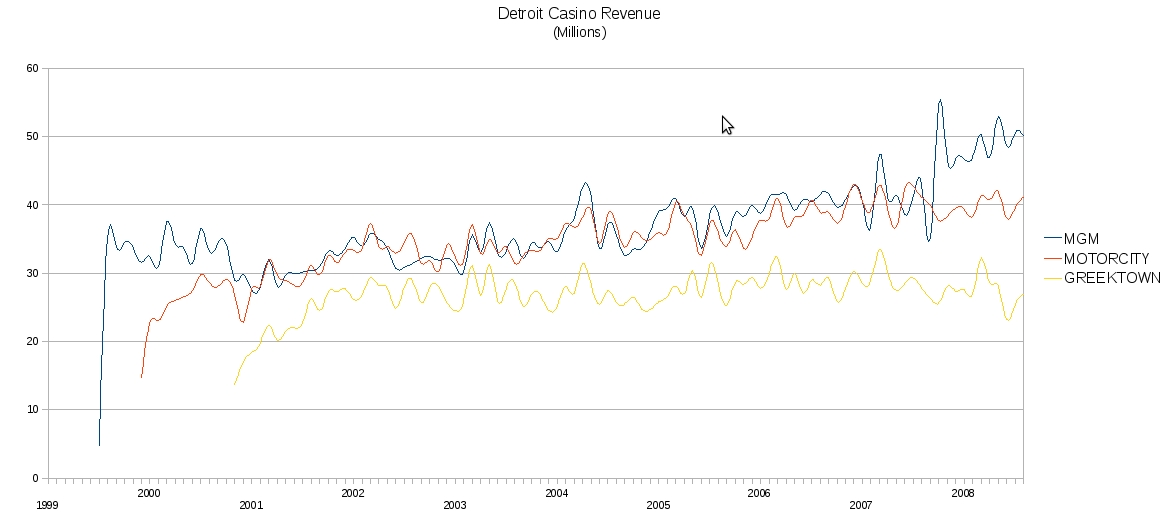 Graph of mgm, motorcity and greektown revenue from 1999 to august 2008. Number are from mgcb web site at